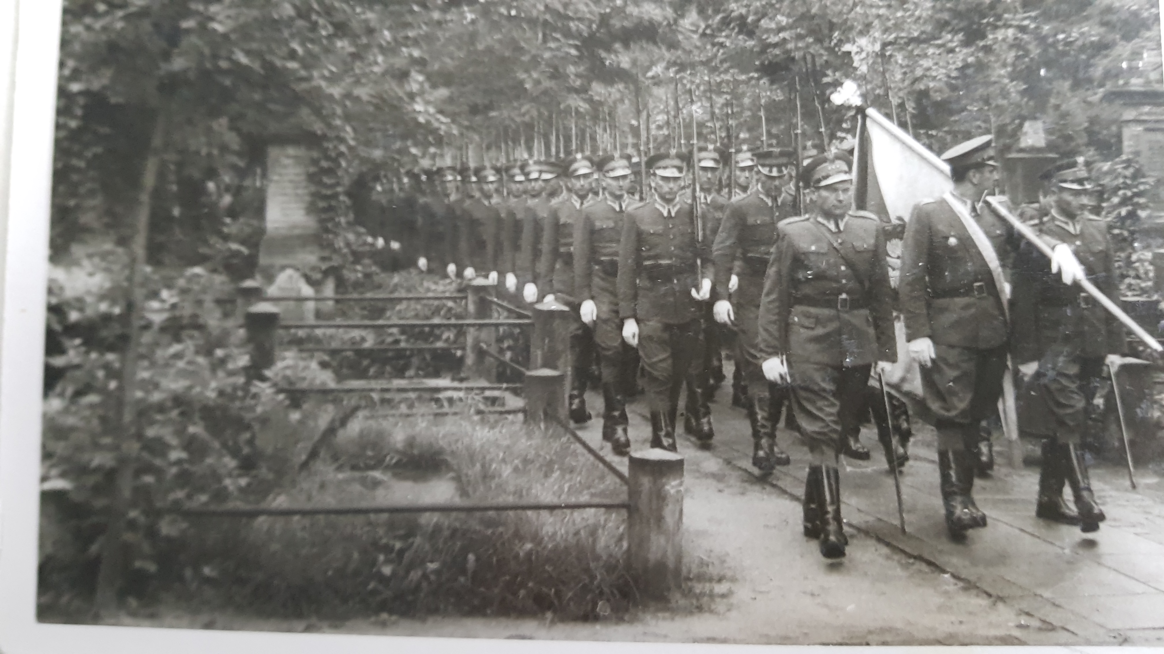 witkowski99